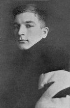 Photograph of Nebraska Cornhuskers football player. A. J. Sturzenegger